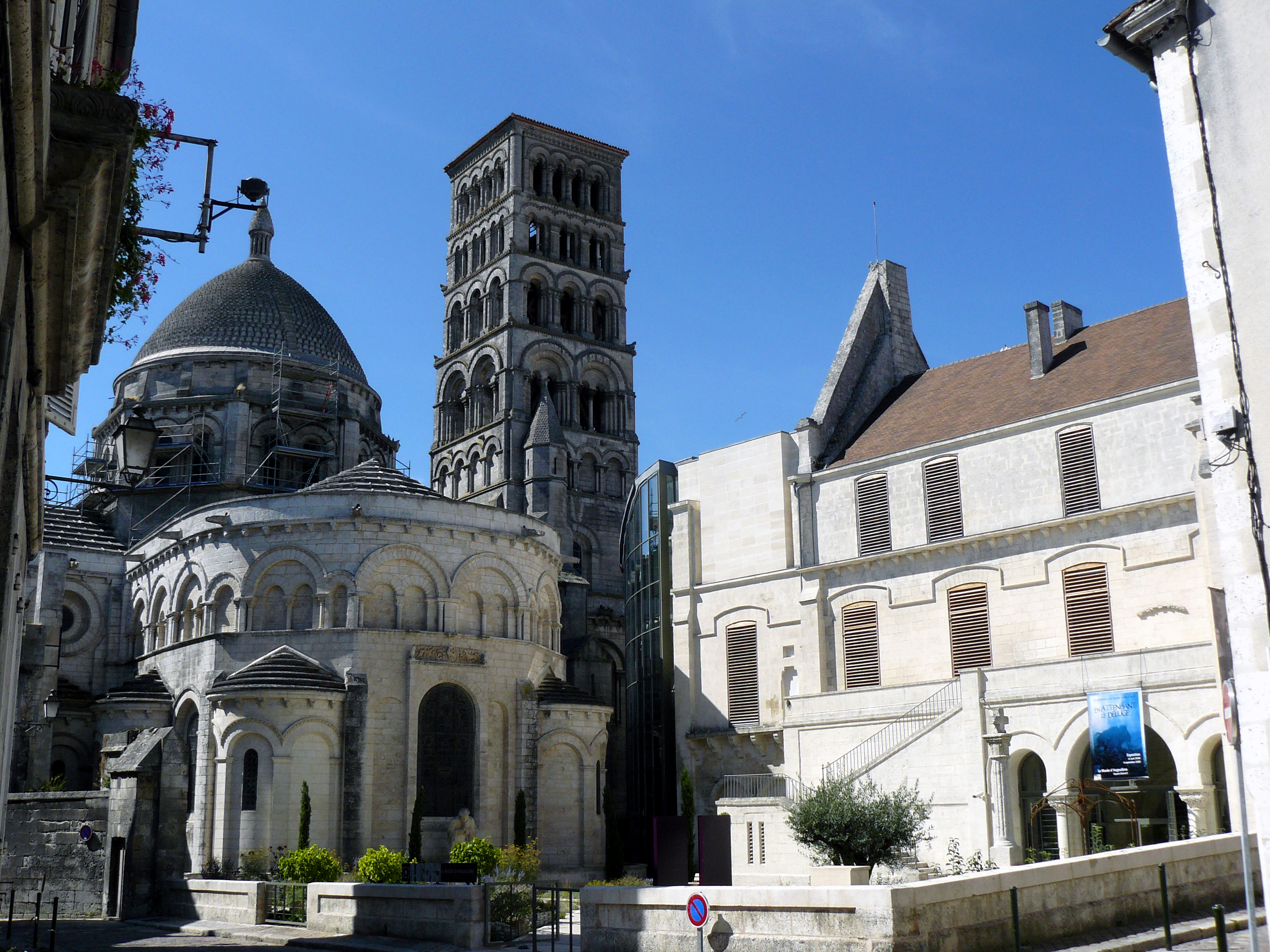 Back of Cathédrale Saitn Pierre, garden and entrenance of museem